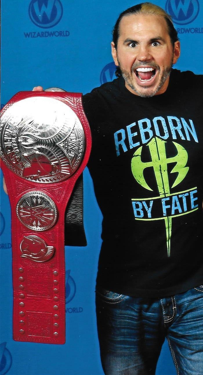 Photo I took of Matt Hardy at Wizard World Comic Con on June 4, 2017 as WWE Tag Team Champion